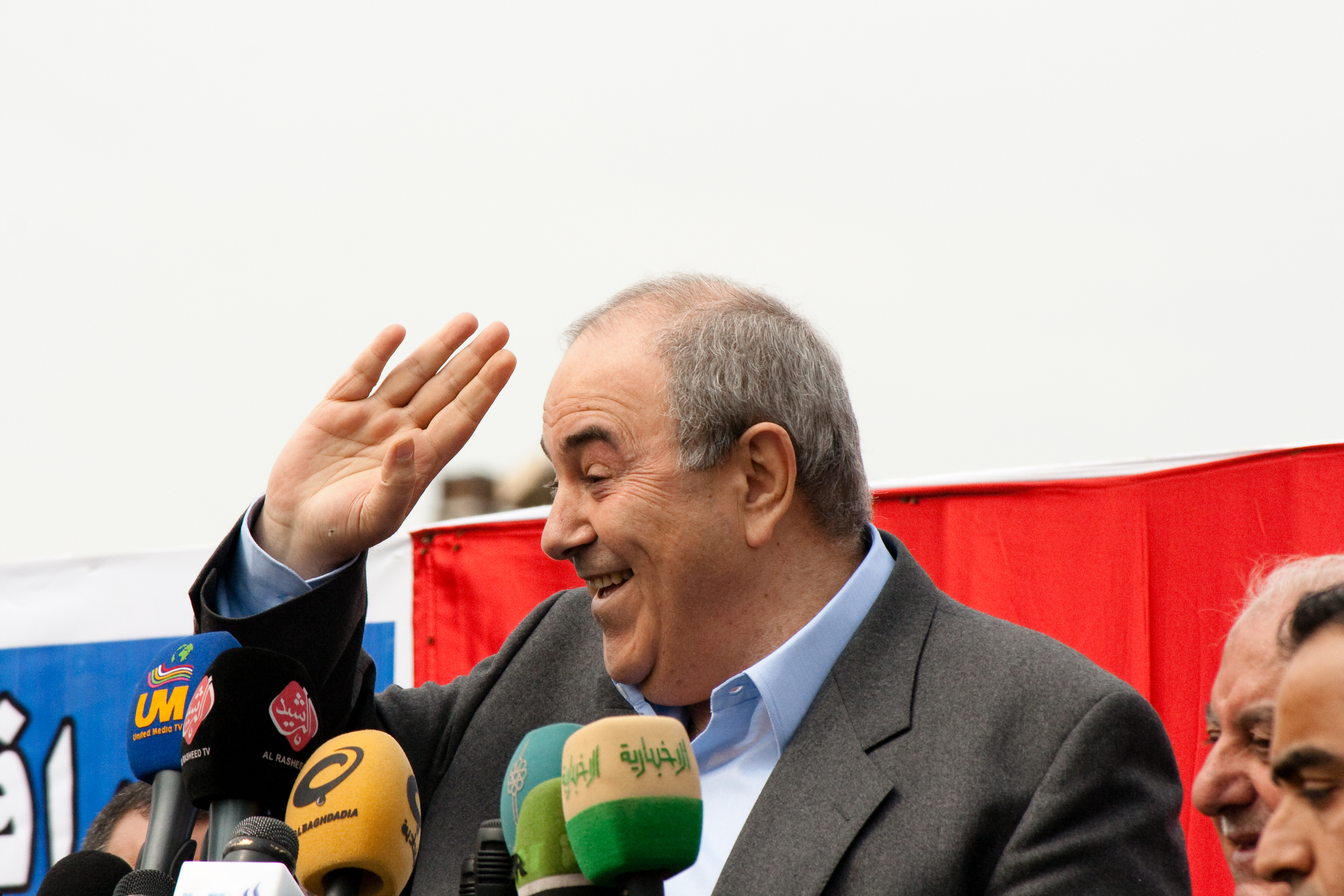 Photo by Omar Chatriwala